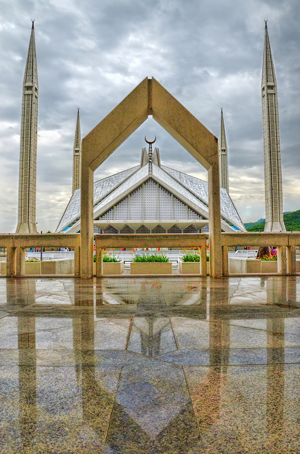 Faisal Mosque This is a photo of a monument in Pakistan identified as the ICT-5